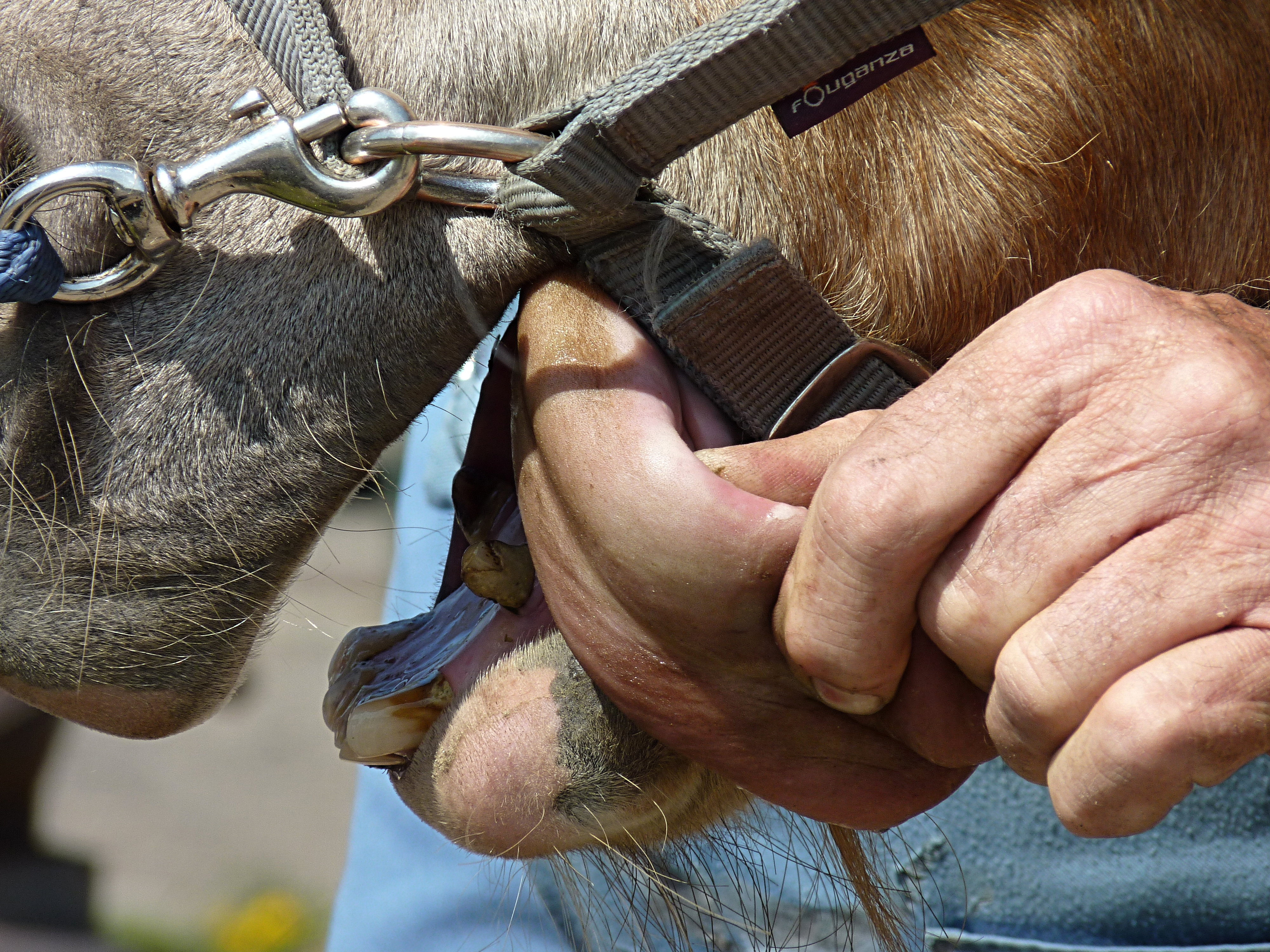 Tongue of a horse, picture taken in Belgium.